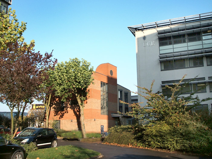 BIAD, Birmingham, October 2005. I created this original image, and this file from it that I am placing onto Wikipedia. Take it, use it, do what you want with it. No rights reserved, author releases all rights. Is that clear enough for you, WikiPolice?